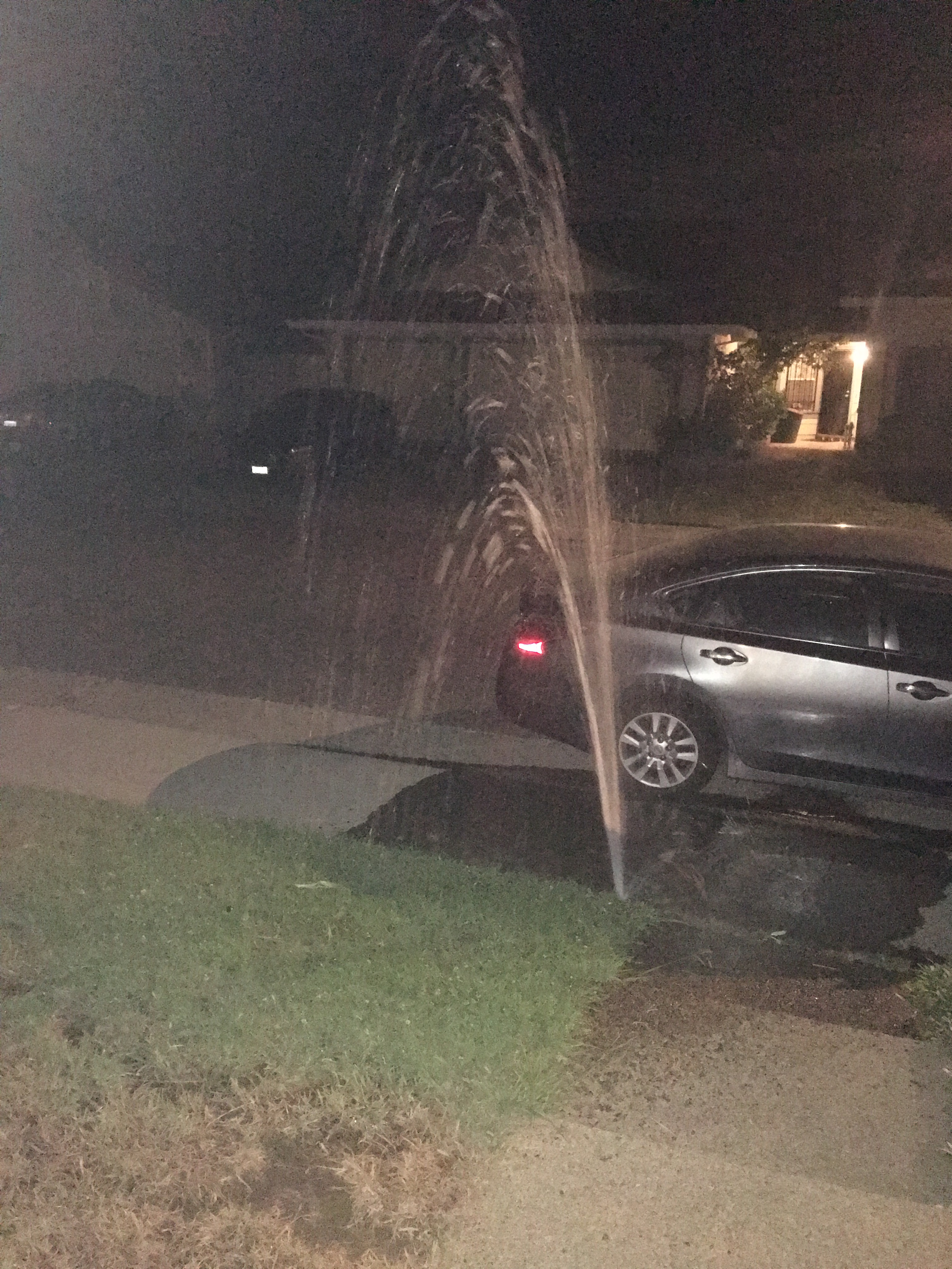 A faulty lawn sprinkler shooting most of its water upwards like a geyser.